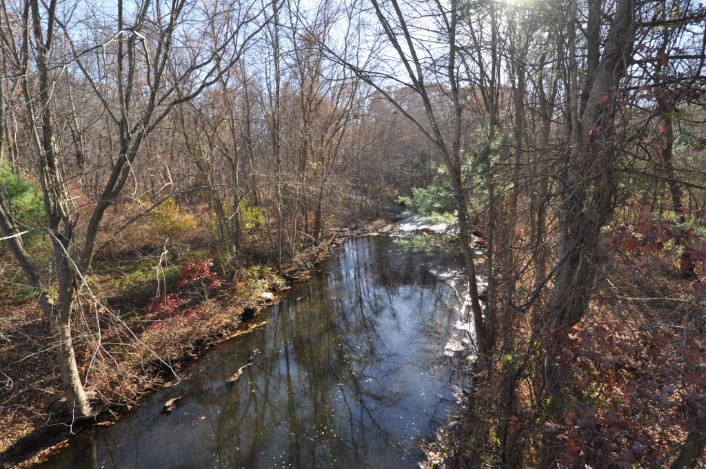 Abbott Run valley below Arnold Mills, Cumberland, Rhode Island. In this area is the site of an even early iron works, the Carolina Furnace.